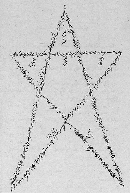 Facsimile: A prayer, written in the form of a pentacle, by Siyyid Ali-Muhammad-i-Shirazi, also known as the Báb. Bab claimed these are verses from God. Also known as "Haykal-e-Bab" (in Persian: هيكل باب).